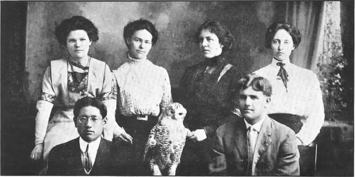 A photo of editorial staff of Takenah, a 1911 yearbook of the Albany College. Alan L. Hart (then Lucille A. Hart) to the right.